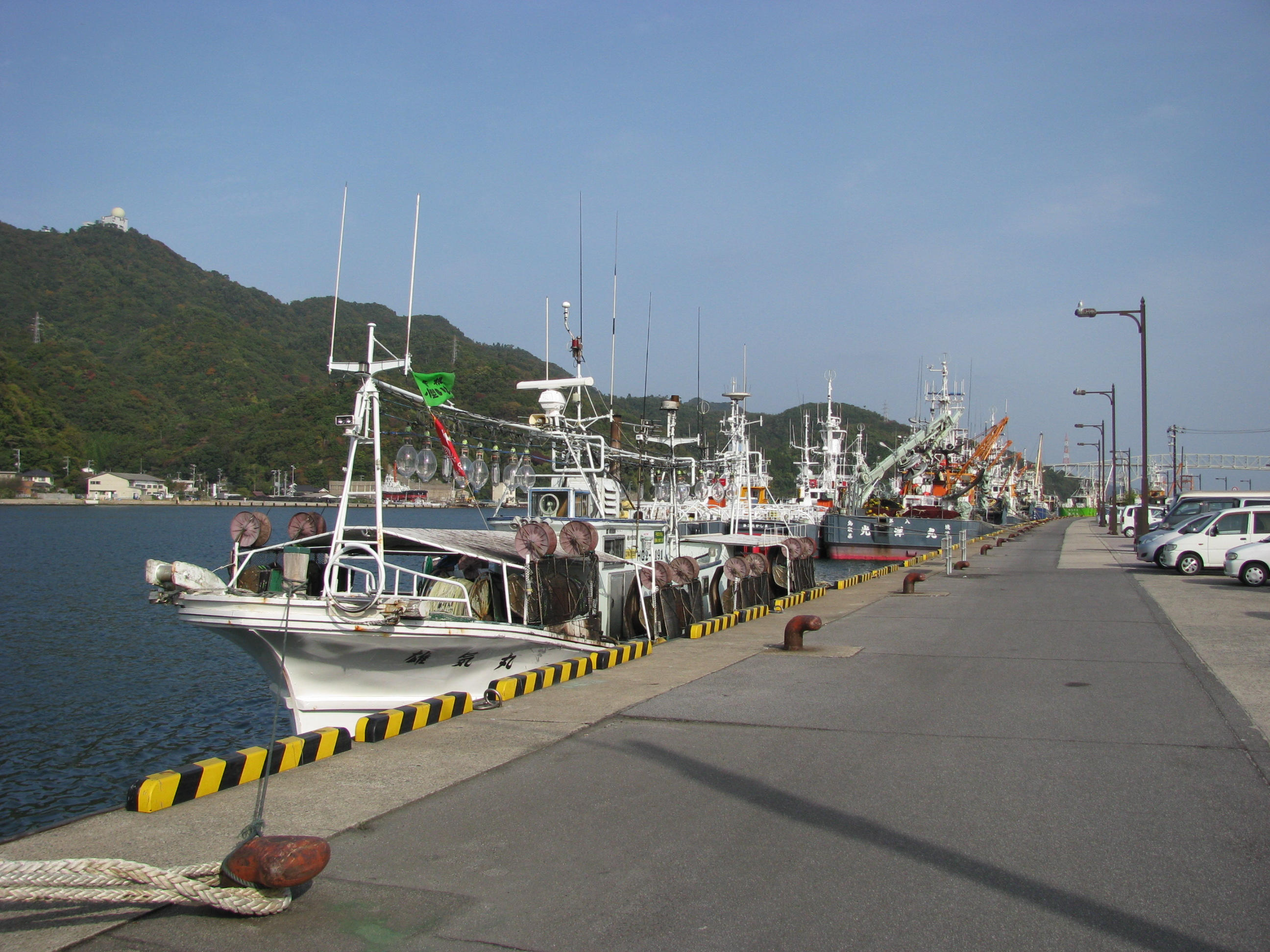 The Sakai Port. This place is Sakaiminato, Tottori Prefecture, Japan.